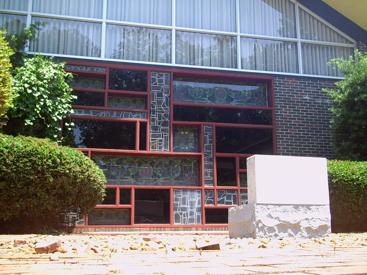 Front windows of Temple Beth Israel in Meridian, Mississippi